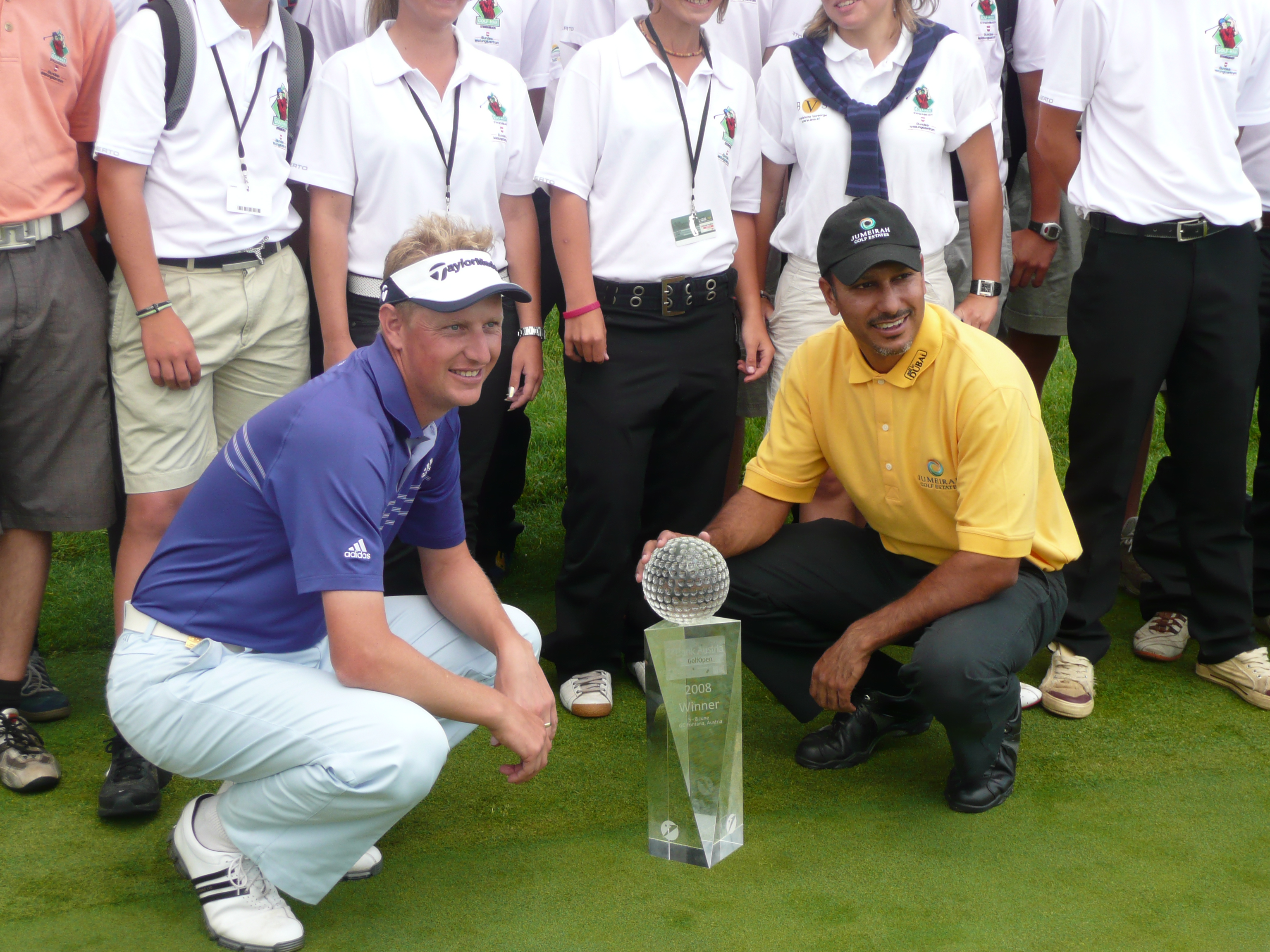 The winner Jeev Milkha Singh receiving his trophy for winning the 2008 Bank Austria GolfOpen presented by Telekom Austria (European Tour) at Golfclub Fontana. To the left is second in place Simon Wakefield from Britan.